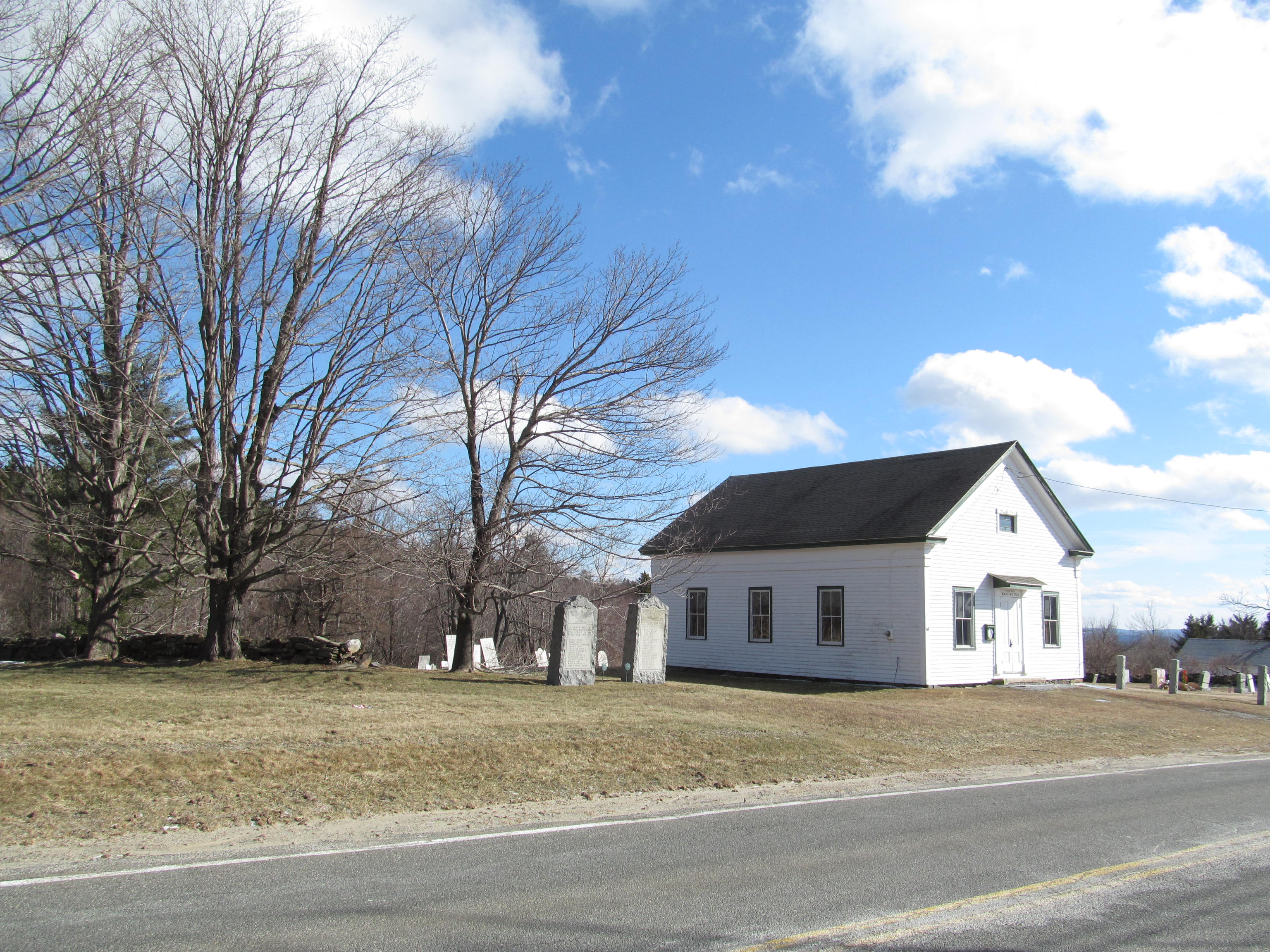 Old Town Hall and Cemetery, Washington, Massachusetts; part of the Upper Historic District.